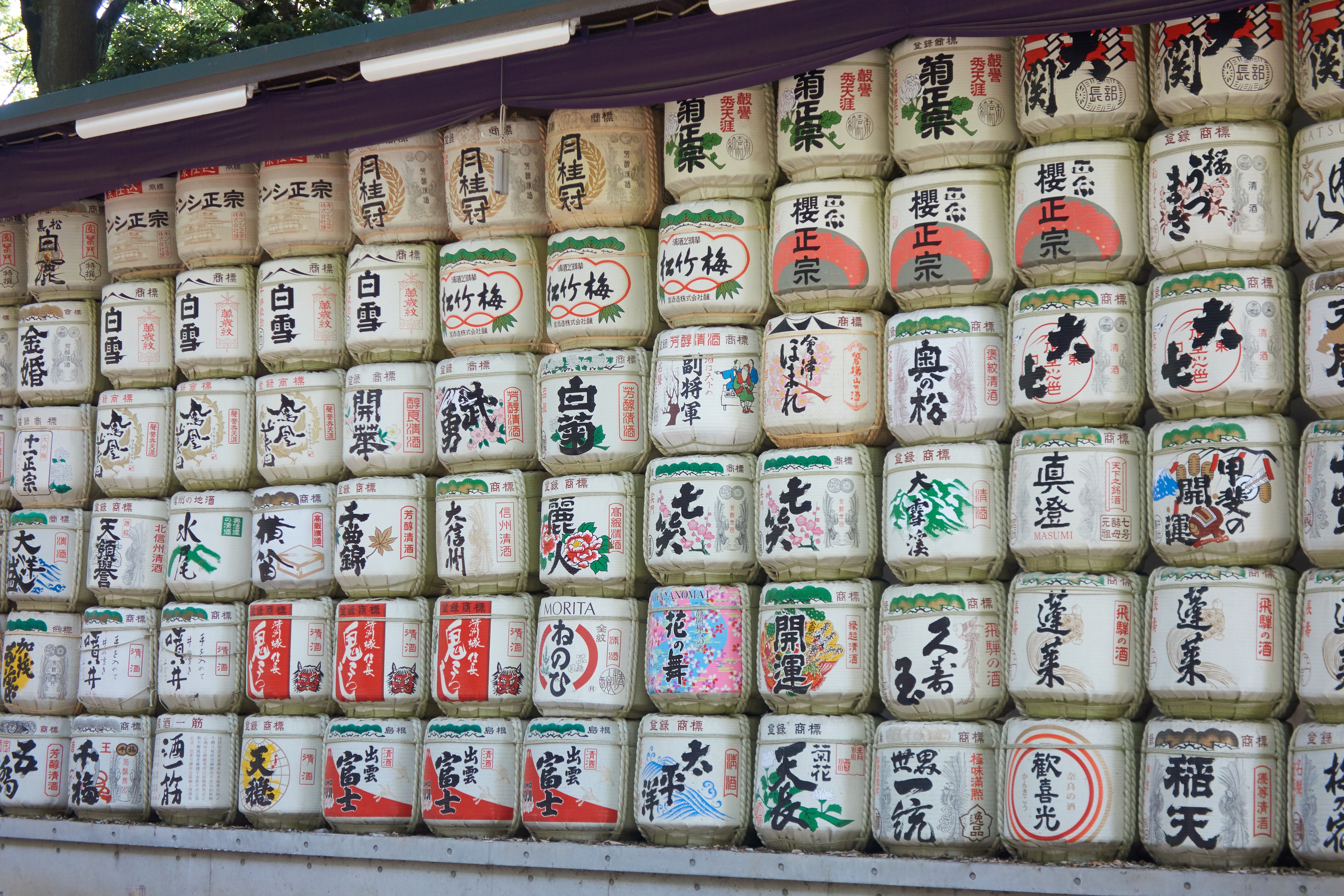 Sake barrels in Meiji Shrine park, May 2017